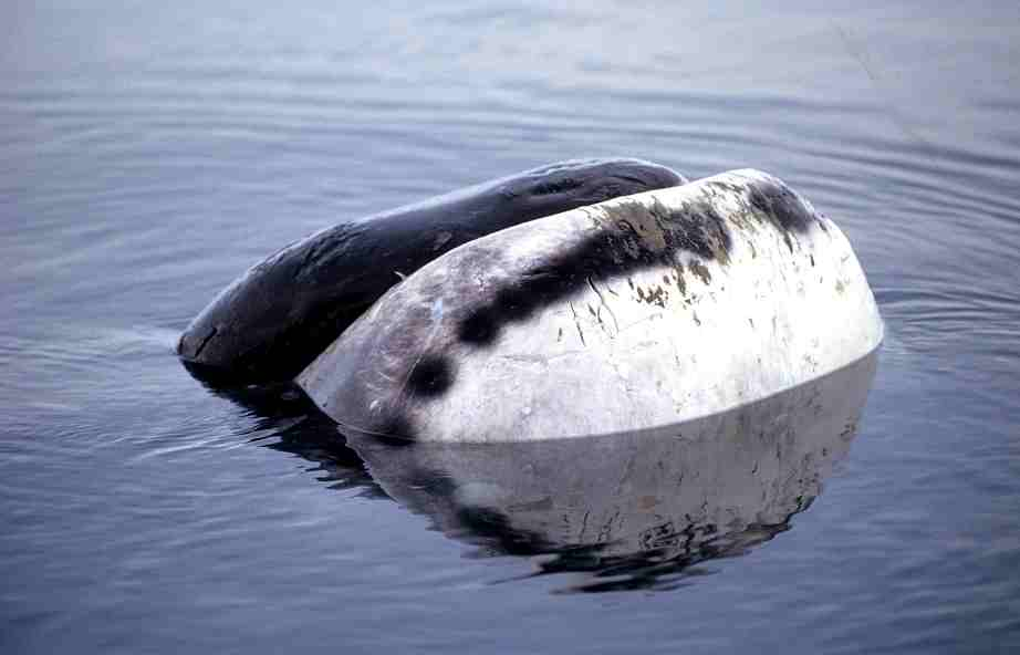 Bowhead whale (Balaena mysticetus): Front of mouth (rostrum), Foxe Basin (Nunavut, Canada)